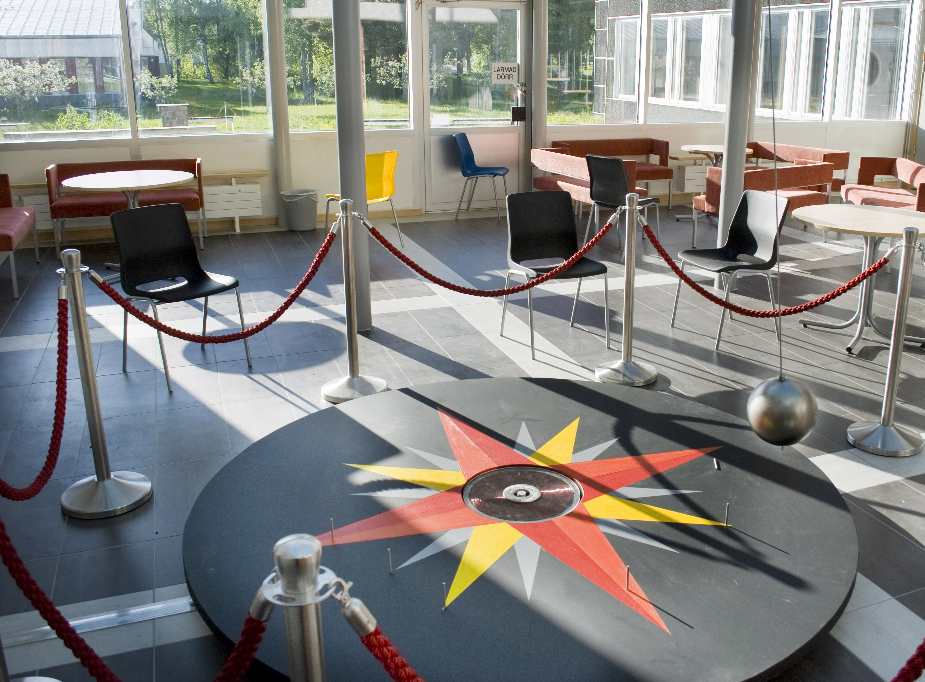 The Foucalt Pendulum at Sandviken